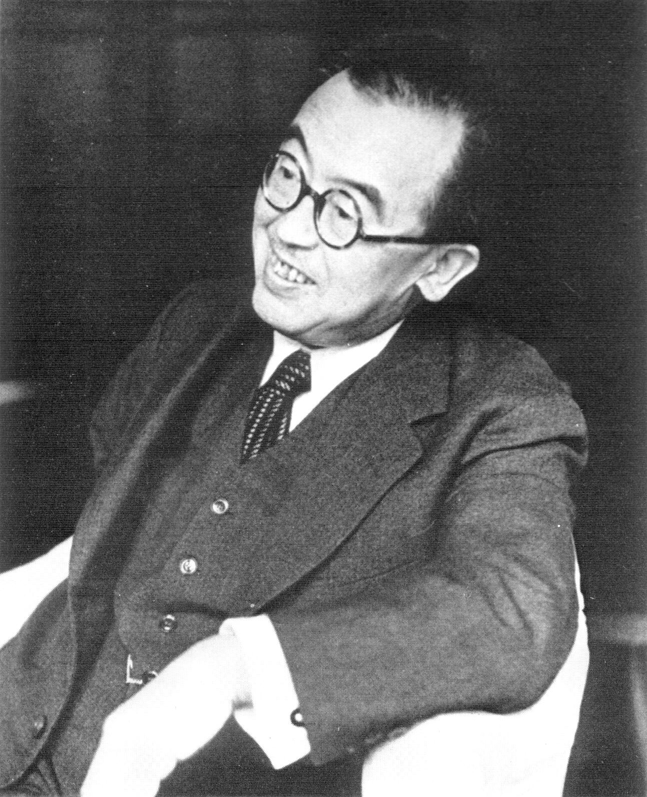 Shintaro Suzuki (1895 - 1970) was a Japanese academic about French literature.